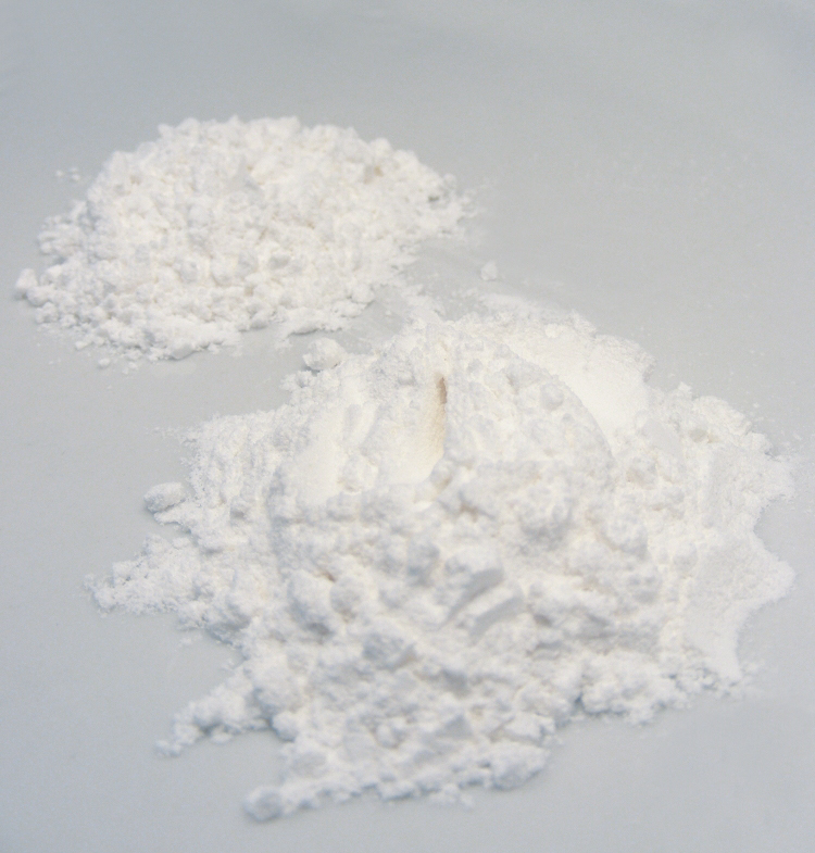 Two kinds of rice flour. Normal, regular rice flour and glutinous rice flour.